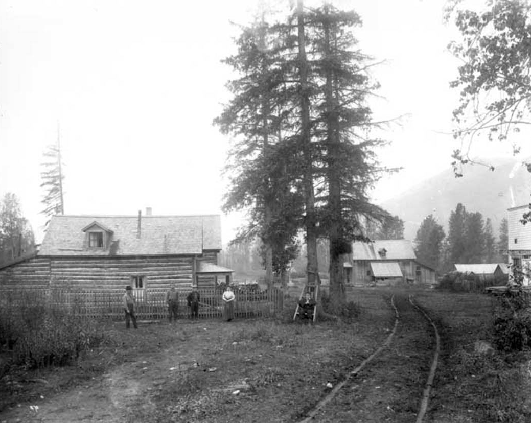 Porcupine mining camp, Haines Borough, Alaska.